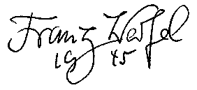 Signature of Austrian author Franz Werfel